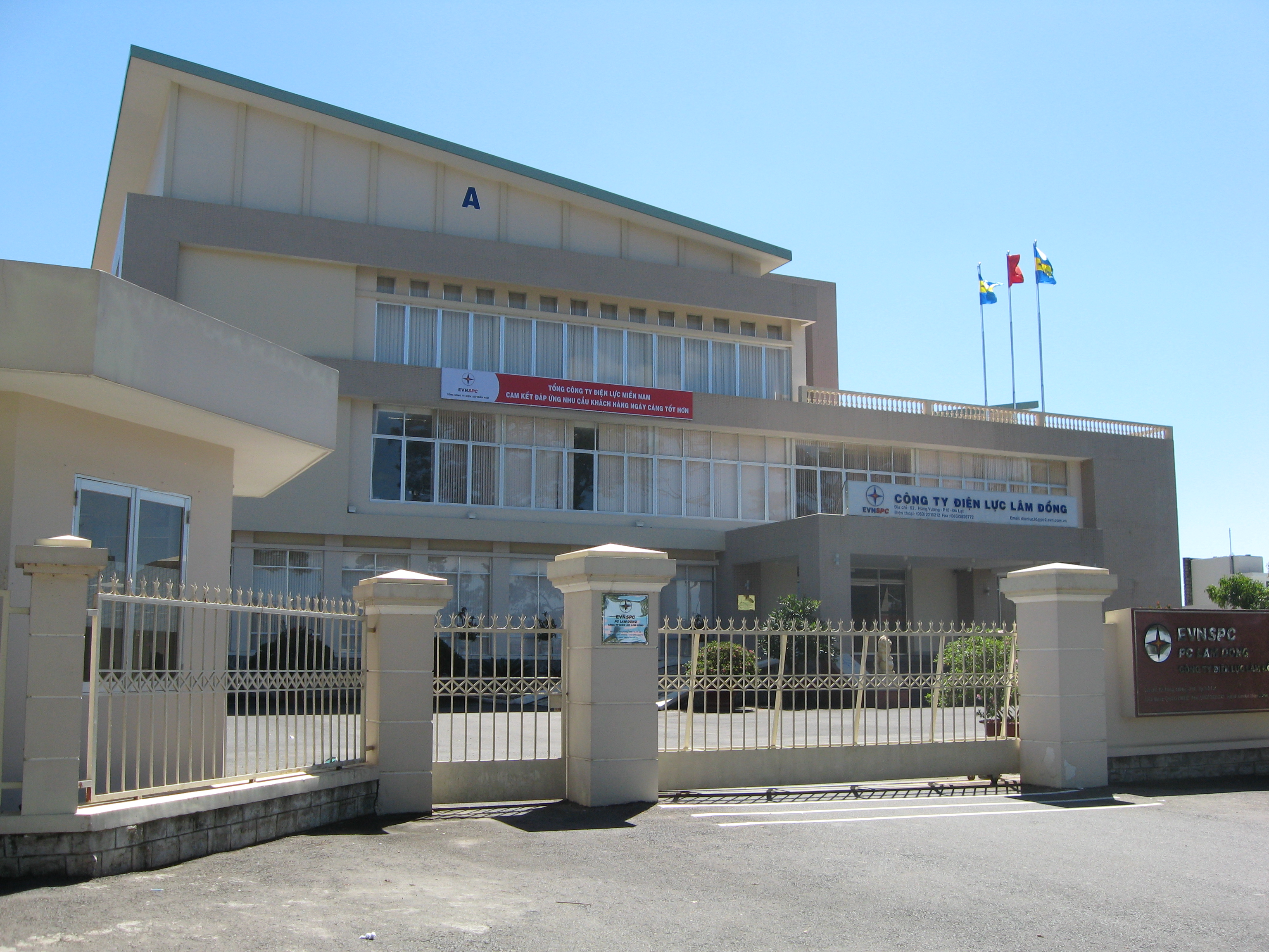 Southern Power Corporation, 2 Hung Vuong street, Da Lat